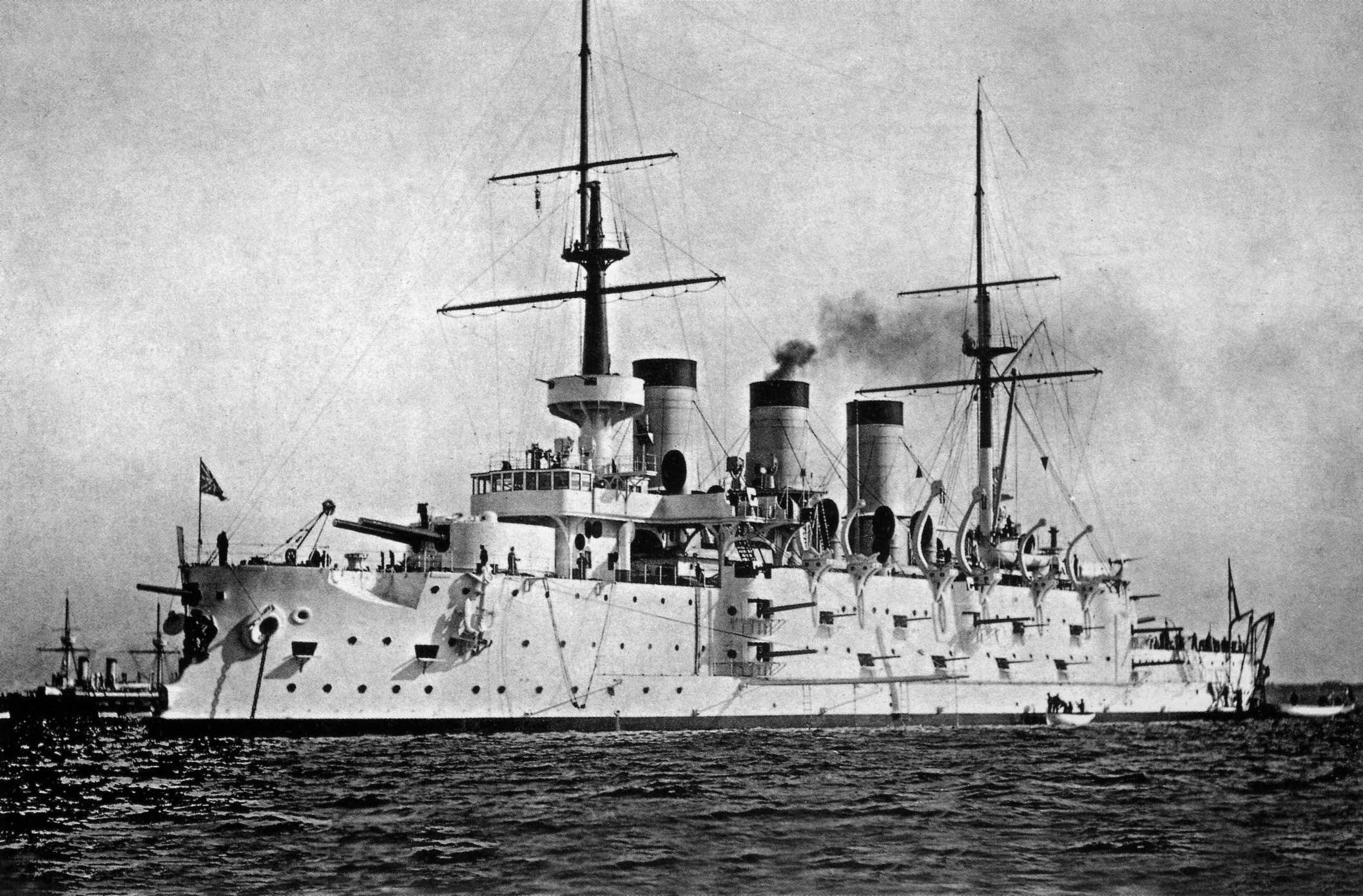 Russian battleship Pobeda on the Kronstadt roadstead 1901